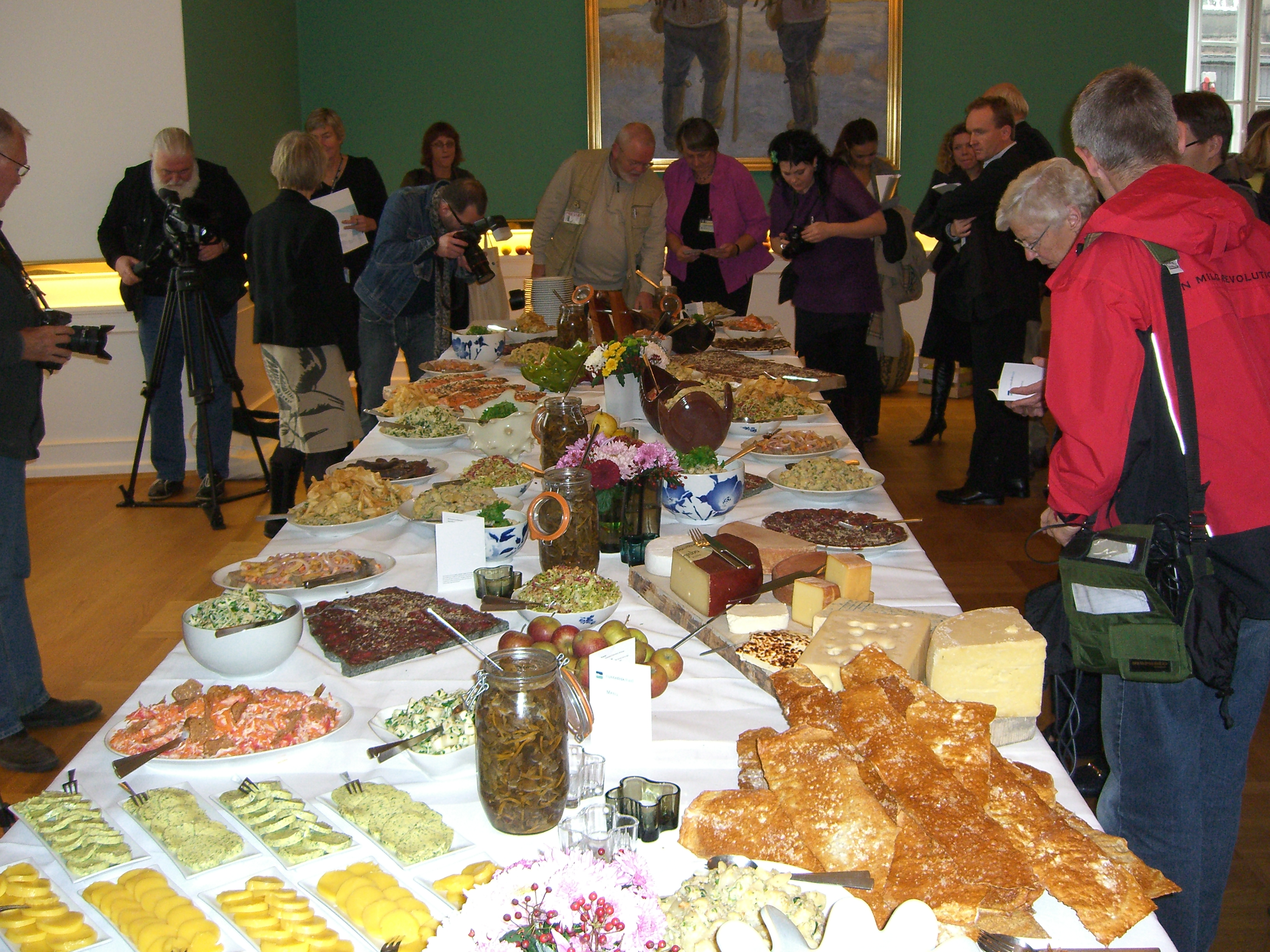 Food